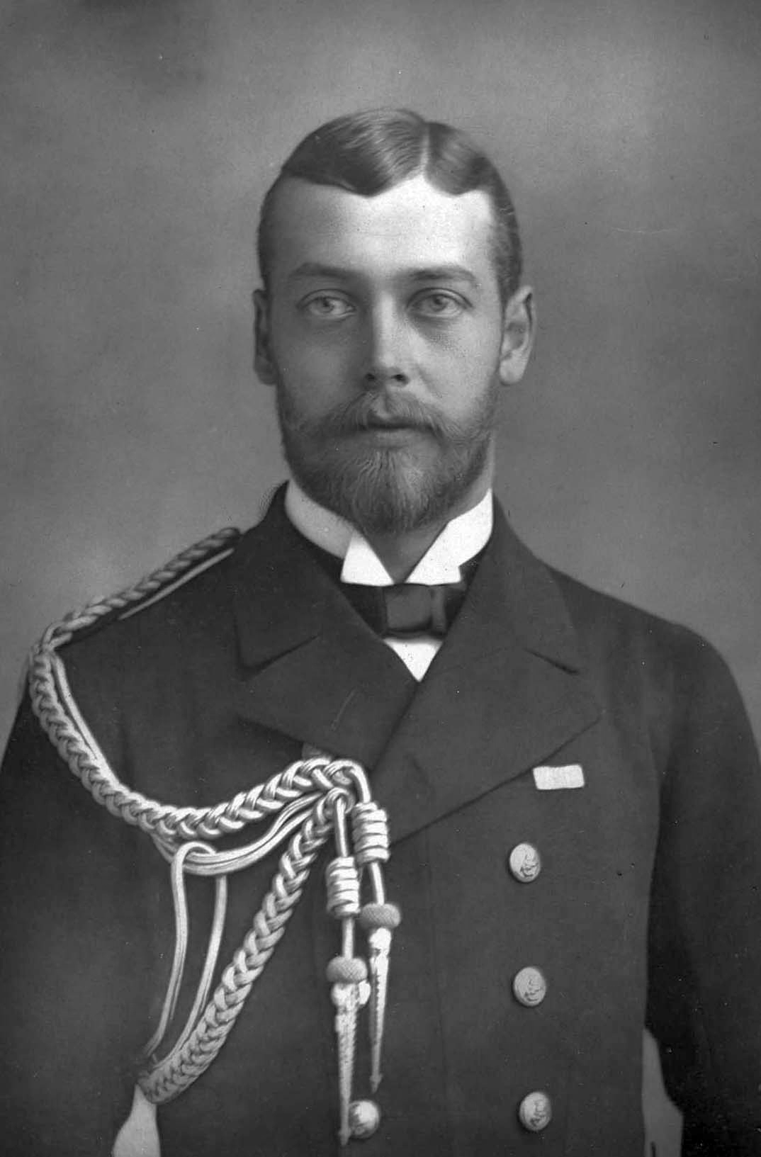 George V of the United Kingdom (1865-1936)